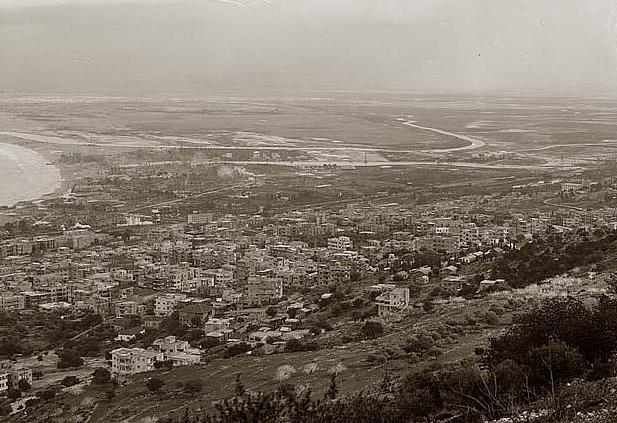 Haifa (today's Israel) in 1898. Description given at the source: "(...) photograph of Haifa taken from a Hill. It was created in 1898." (text from same source)